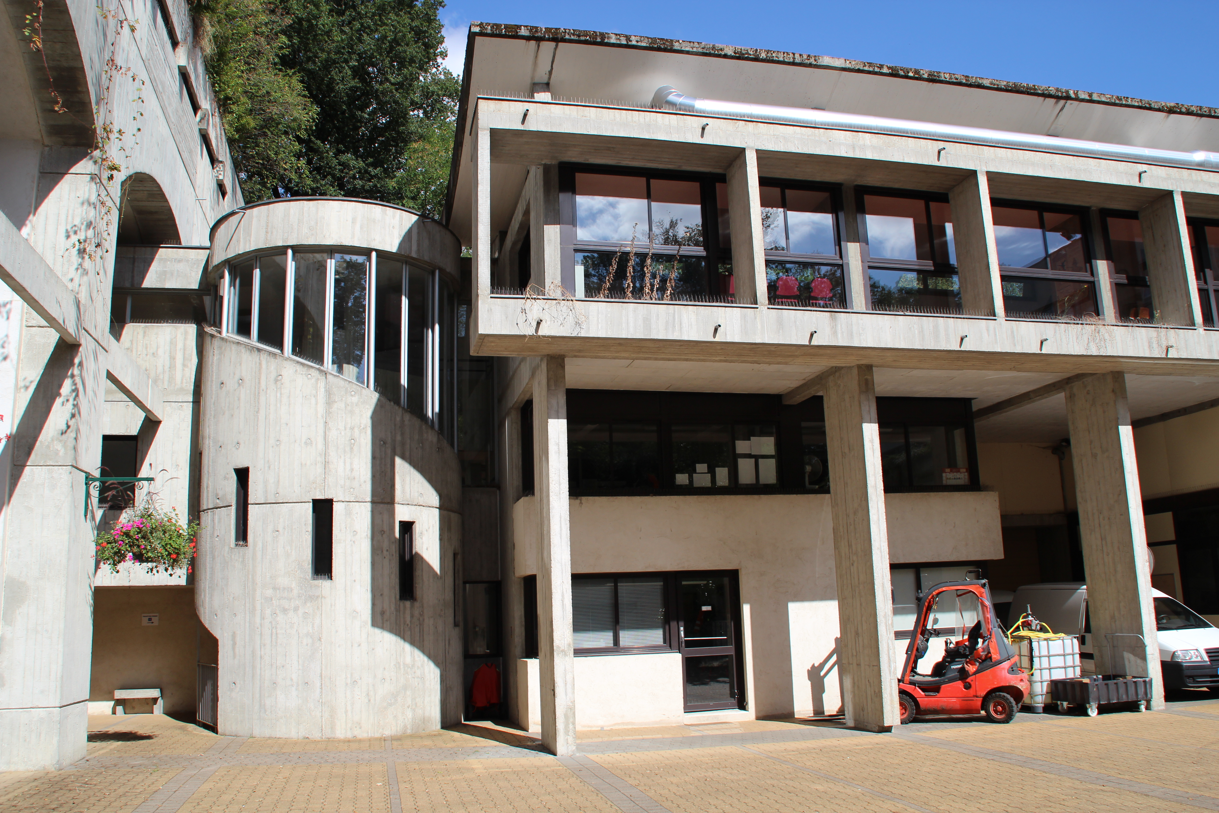 The battery of Bois d'Arcy is one of the military batteries built in the late nineteenth century to defend Paris. It is located in the commune of Bois d'Arcy, in the department of Yvelines, France. It is now a archives center for the Centre national du cinéma et de l'image animée (National Center of Cinematography and the moving image). .